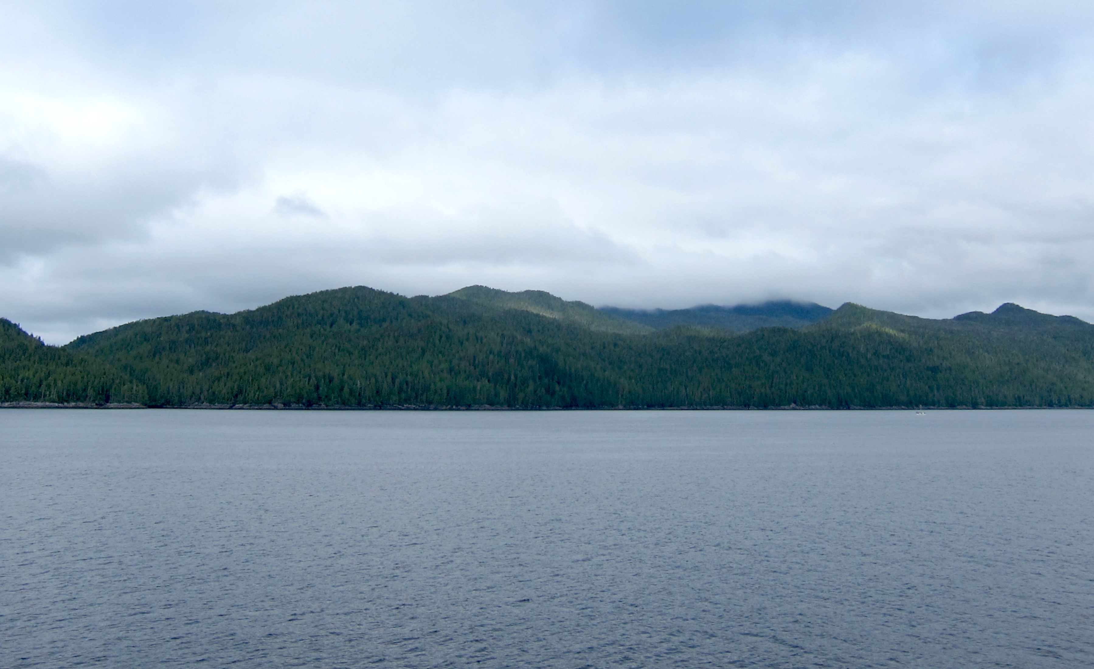 Calvert Island, on the east side of Fitz Hugh Sound, British Columbia